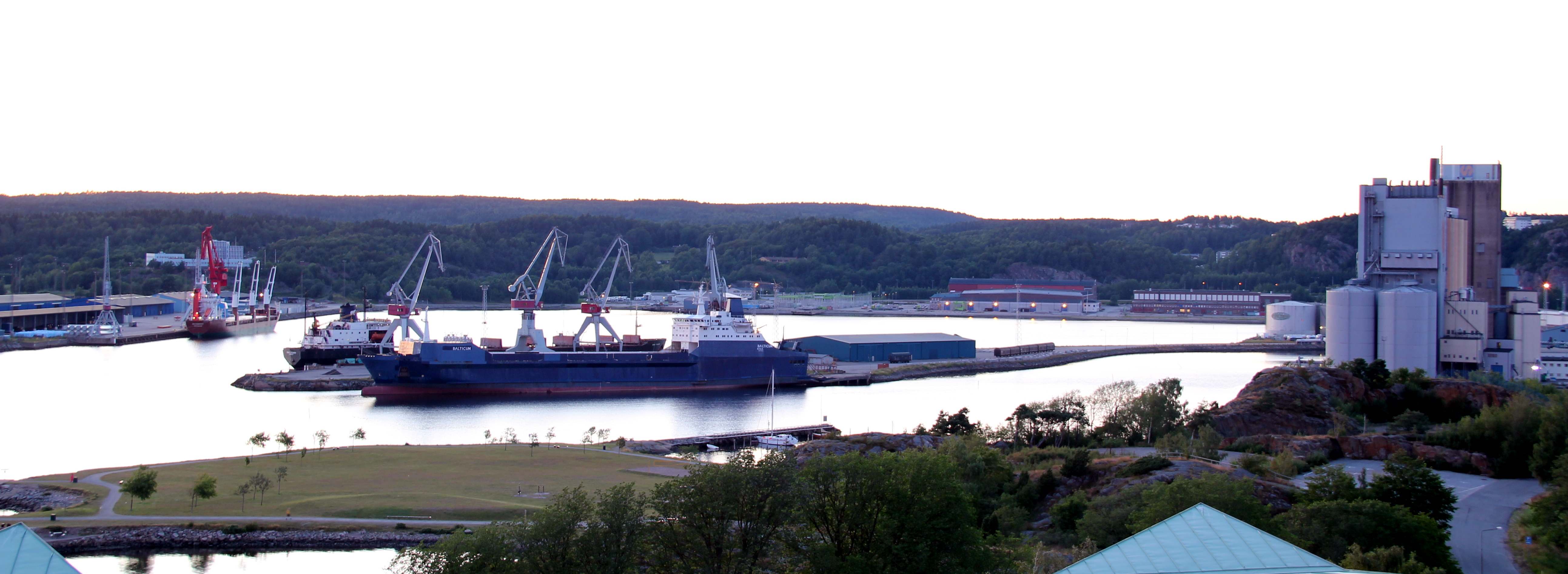 Byfjorden at Uddevalla, with Uddevallavarvet (shipyard), july 13 2011